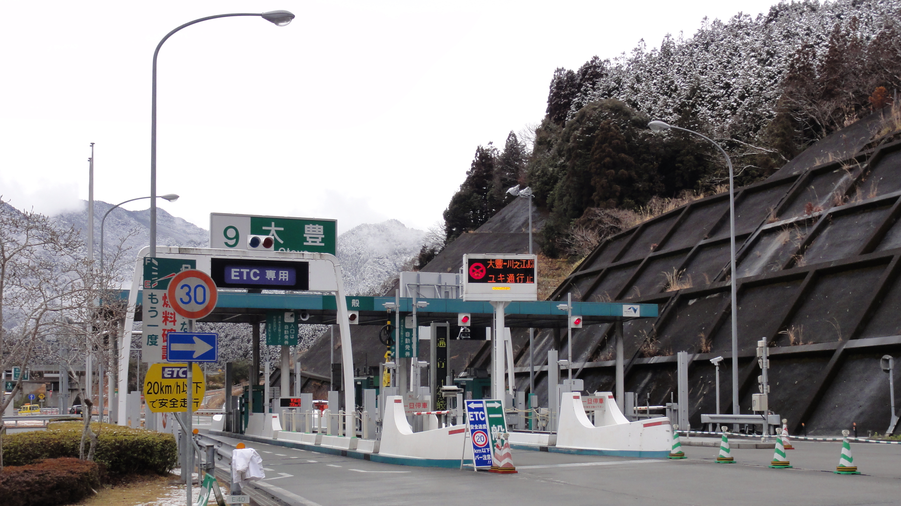 Otoyo Inter Change,Kochi Prefecture, Japan